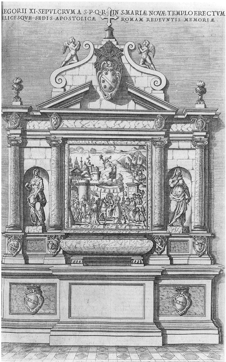 Tomb of Pope Gregory XI in Rome